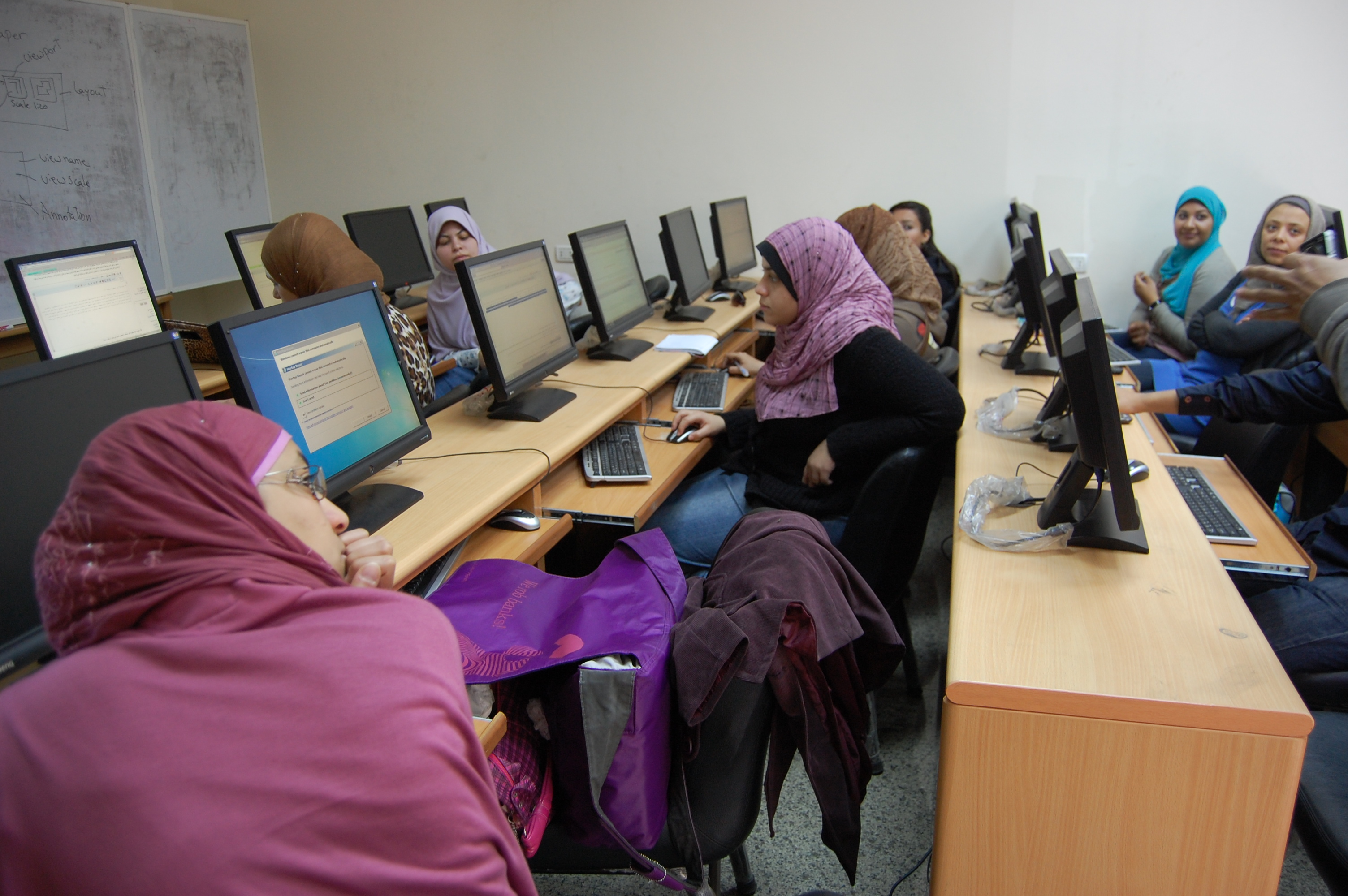 Campus Ambassadors explain how to edit Wikipedia to Professor Abeer's students at Cairo University.